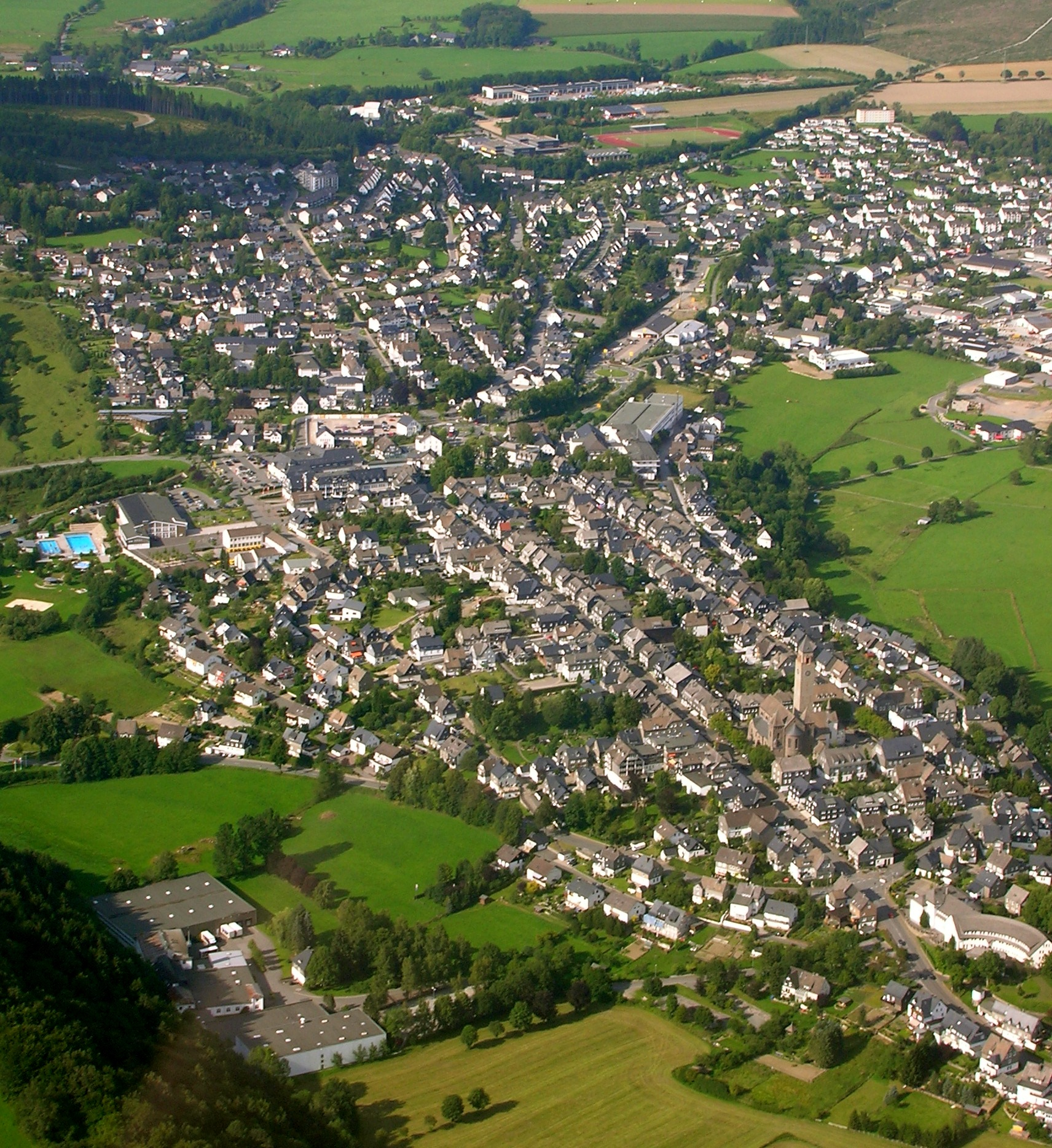 Schmallenberg, Germany